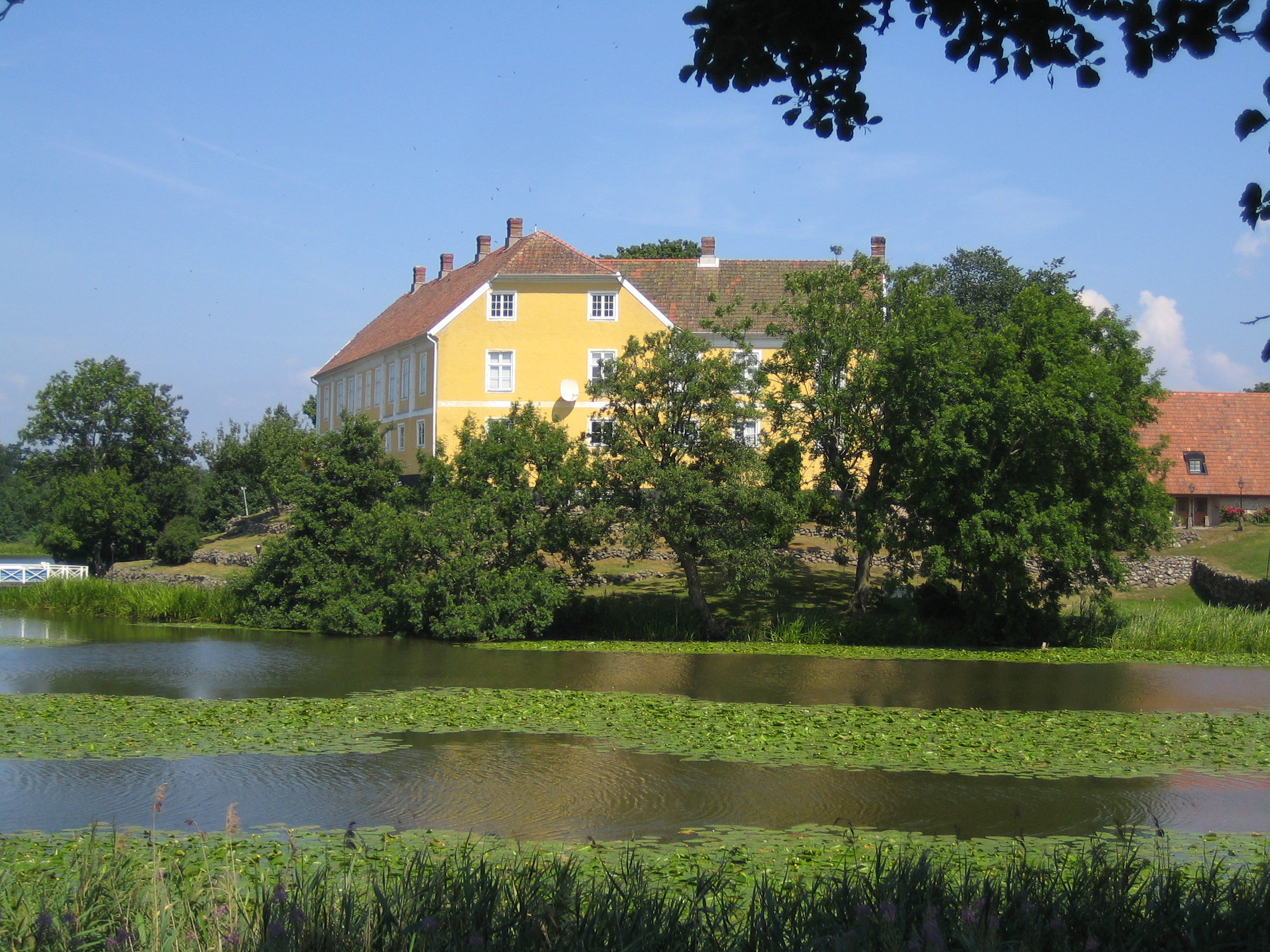 Picture of Vallen manor in Halland, Sweden.